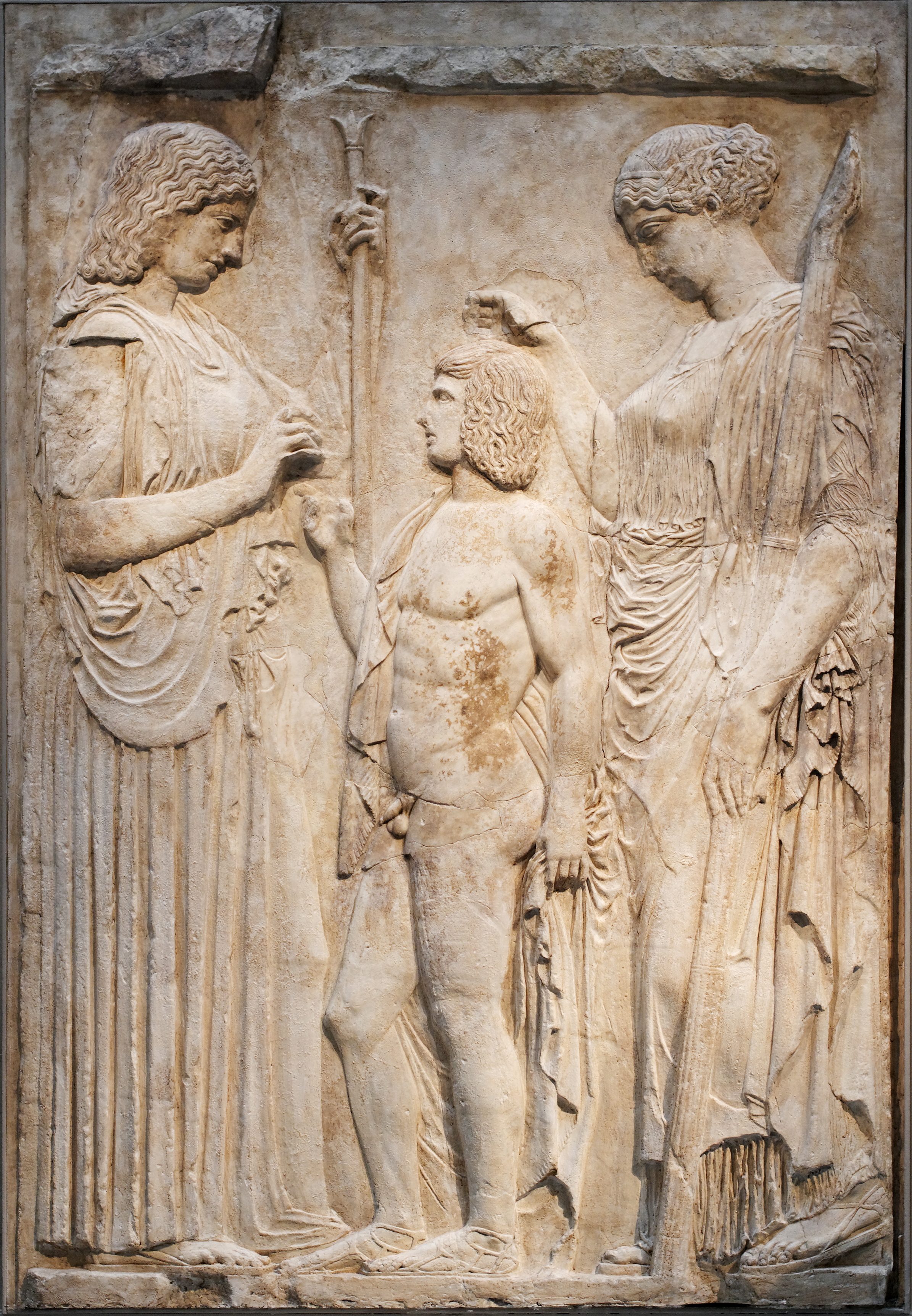 Fragments of the Great Eleusinian Relief with Demeter (left), Persephone (right) and Triptolemos (centre). Roman copy of the Augustan period after a Greek original of ca. 450–425 BC found at Eleusis and now in the National Archaeological Museum in Athens. Original fragments are set in a cast after the original.